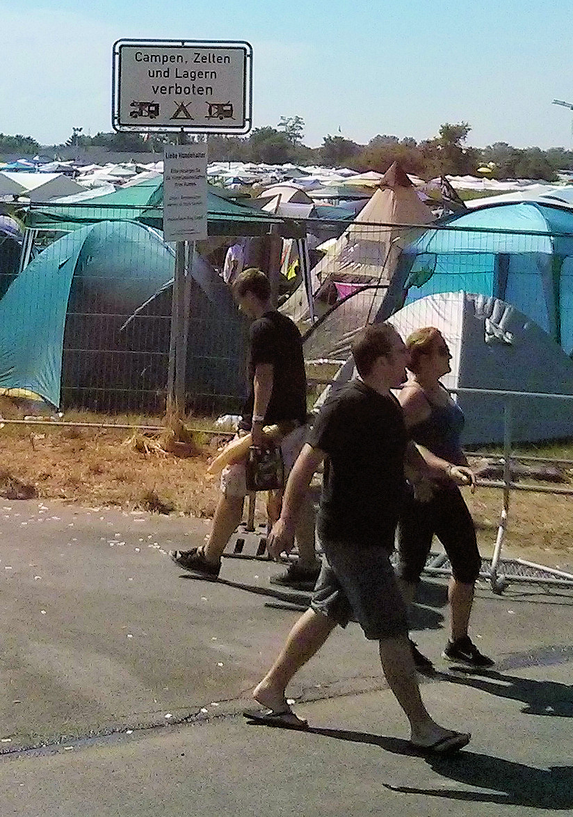 Camping site of the 1st "Rock'n'Heim" Rock Festival, Hockenheim Ring, Germany